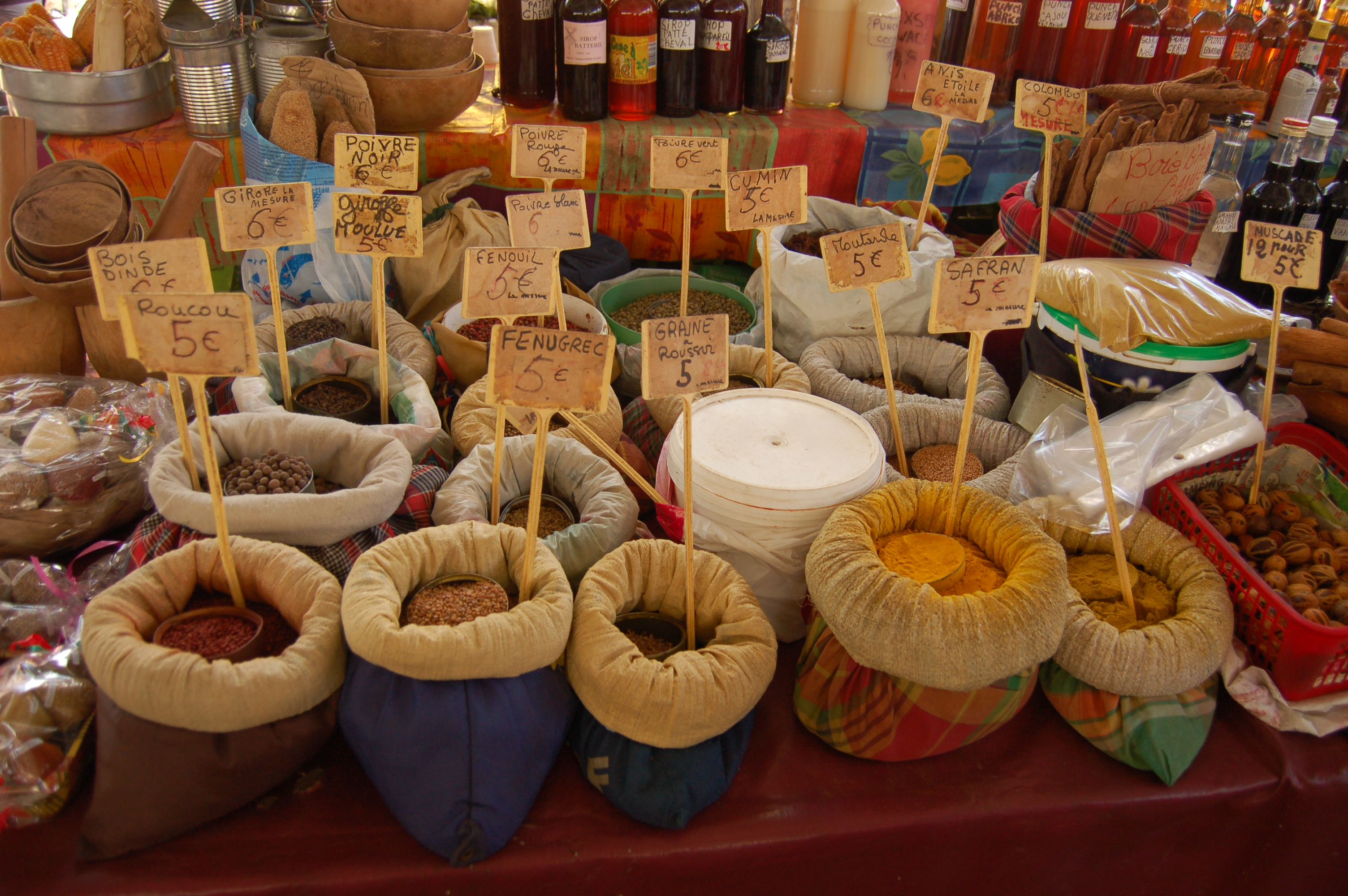 Spice in the Pointe-à-Pitre market, Guadeloupe